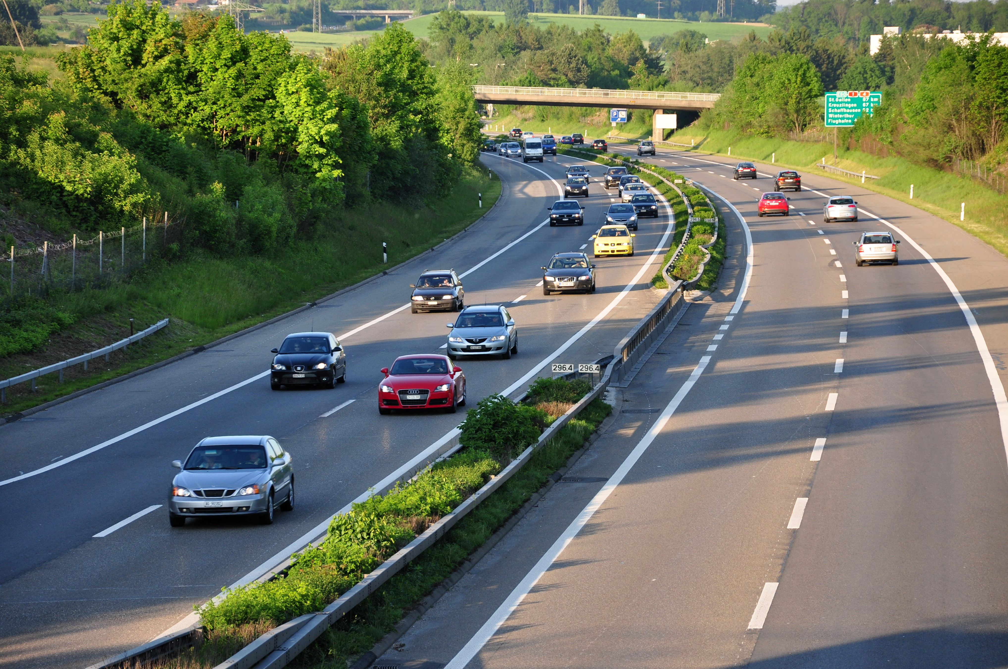 A1 between Zürich-Affoltern and Rümlang (Switzerland), Affoltern to the right.